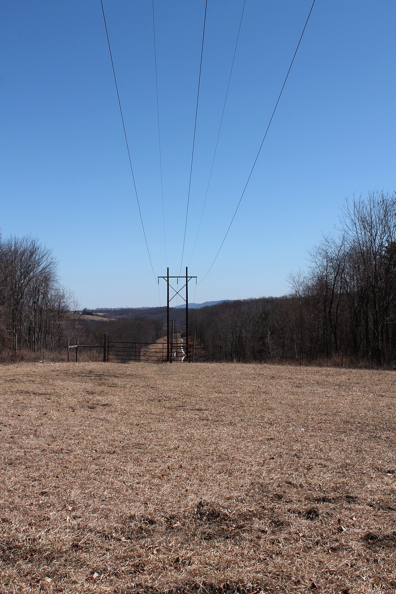 Power line in Cooper Township, Montour County, Pennsylvania